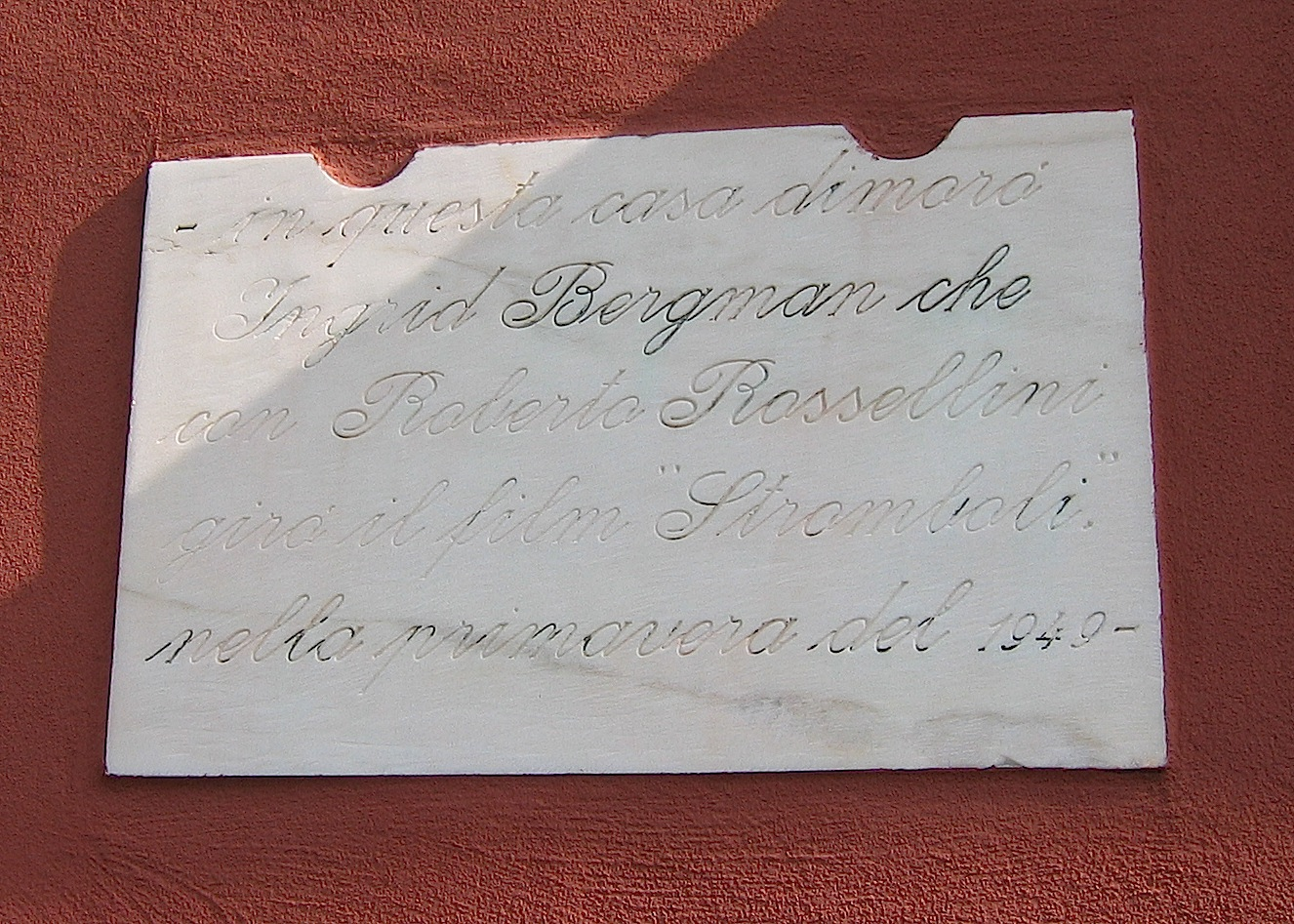 Memorial plaque on the house in Stromboli where Ingrid Bergman and Roberto Rossellini lived during filming of "Stromboli" in 1949